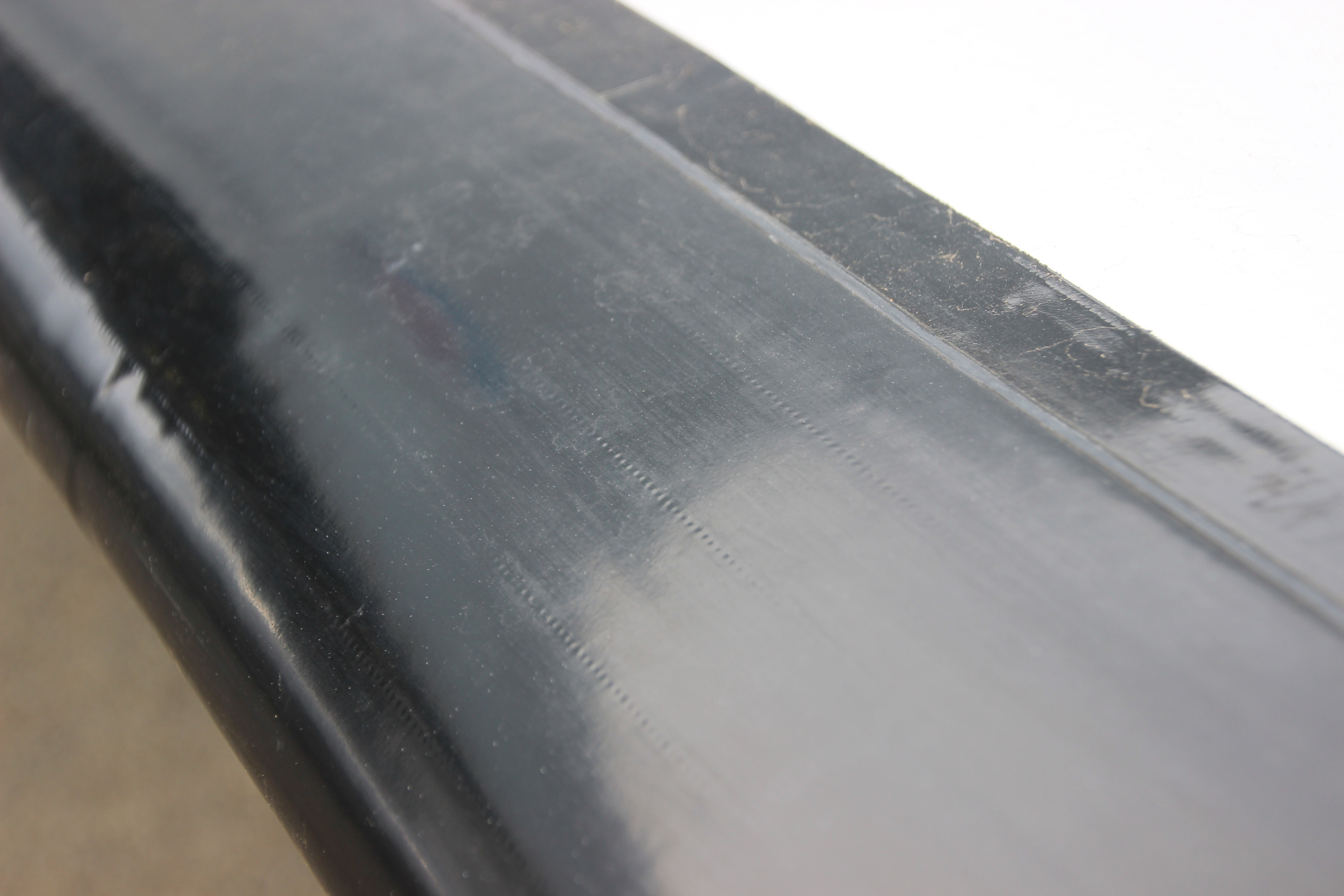 Close-up of a section of a pneumatic de-ice boot on the leading edge of an aircraft's wing. The boot is made of reinforced rubber and the lines on the boot are rows of stitches; the strips between the stitching inflate and become half-cylindrical, thus breaking ice off the wing leading edge. When not in use the strips are held flat by vacuum air; the airflow is changed to pressurise and inflate the boot when required. Inflation is typically for a few seconds every few minutes when the system is being automatically controlled; manual control is typically also available.